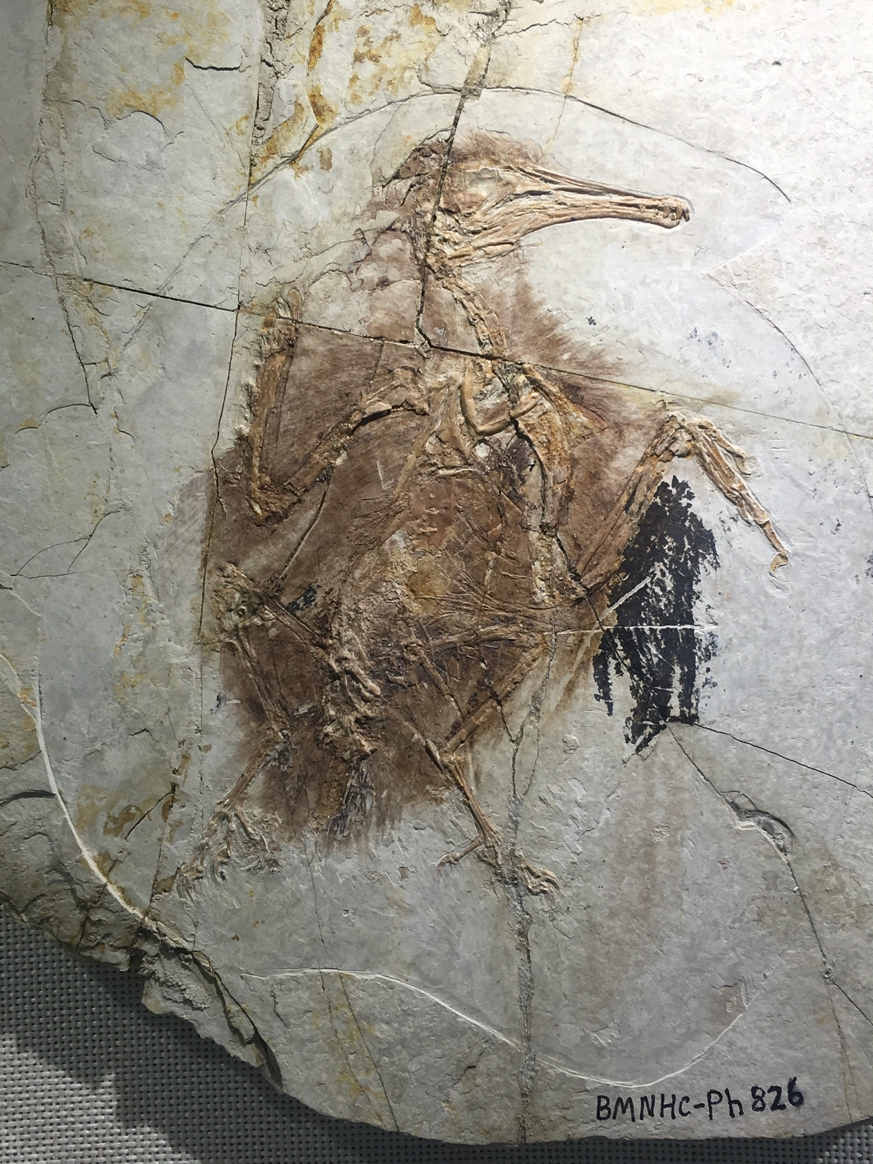 Image of specimen in the Beijing Museum of Natural History, China